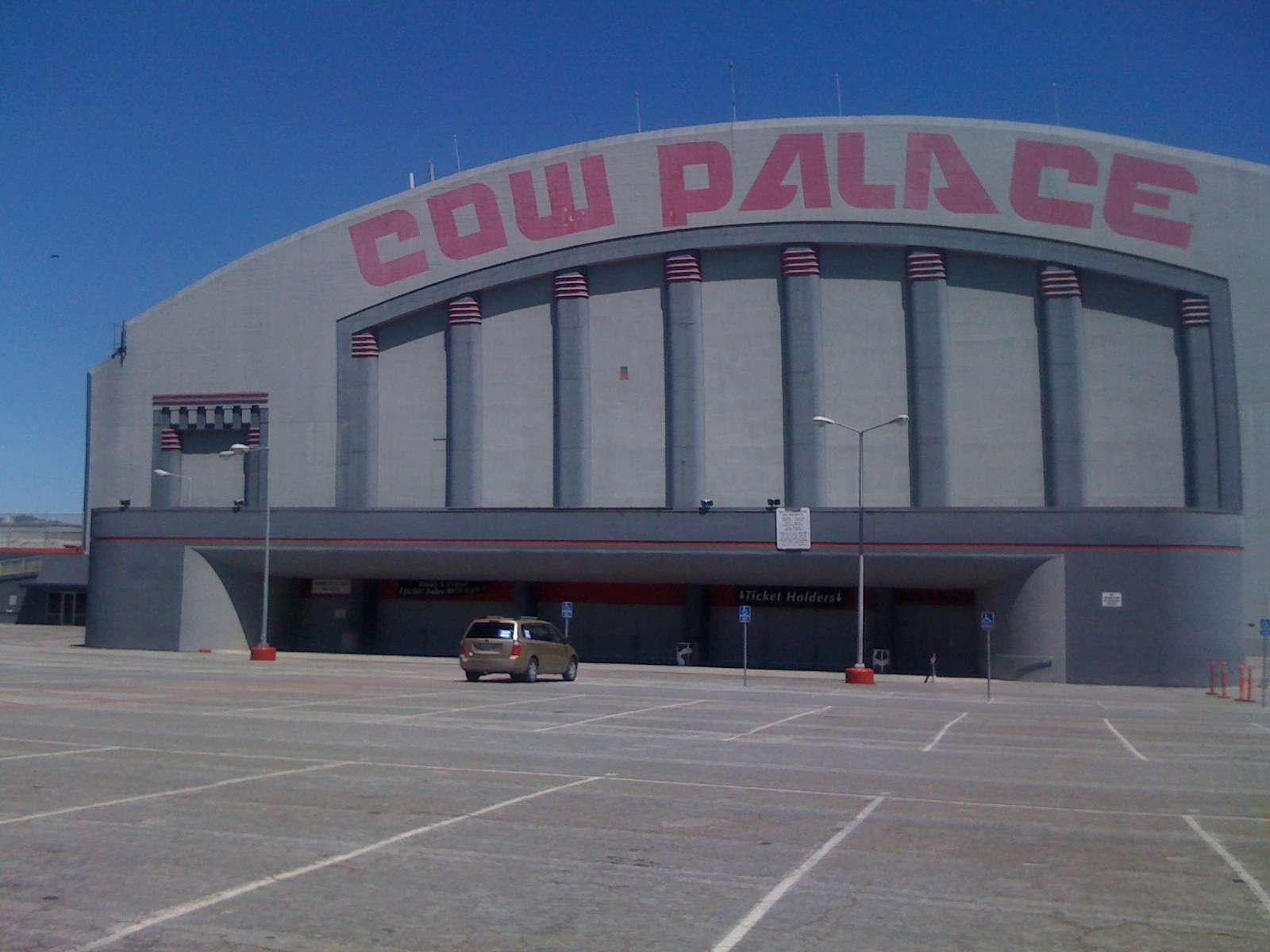 Cow Palace